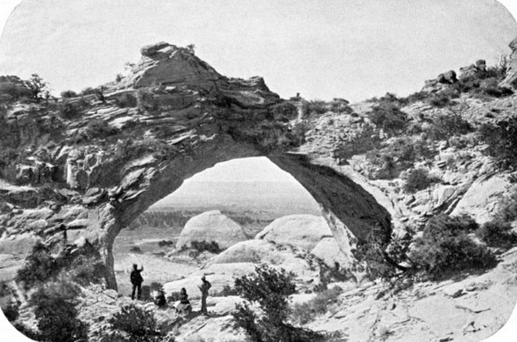 Entry #514 in the Faustini manuscript is Window Rock, Arizona, as seen from the "back" side